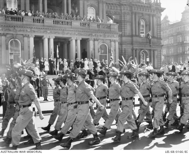 Corps troops with recent service in South Vietnam march past Sydney Town Hall. The troops were part of a big all-services parade which marched through cheering crowds. The Prime Minister, Mr John Gorton, took the salute.